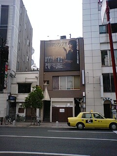 smoking Japanese lady in Turanpudo lounge ad on Akitamachi, Tokushima